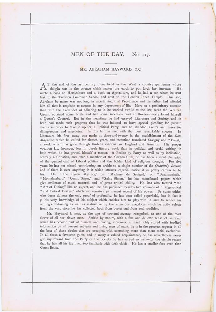 Vanity Fair Text 1875 of Abraham Hayward QC. Note, the contemporary notes state he was educated at Tiverton Grammar School.